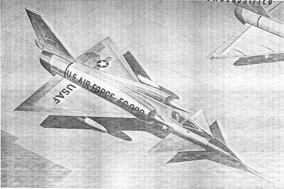 Early concept of an advanced version of the F-106 Delta Dart.